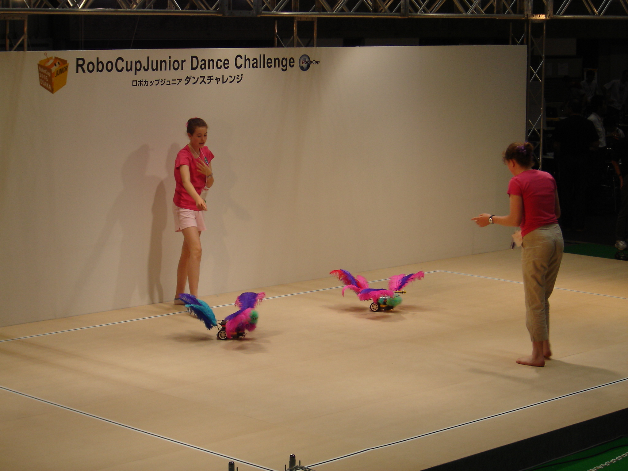 The RoboCup Junior Dance Challenge is next door to us. They are rehearsing something here.